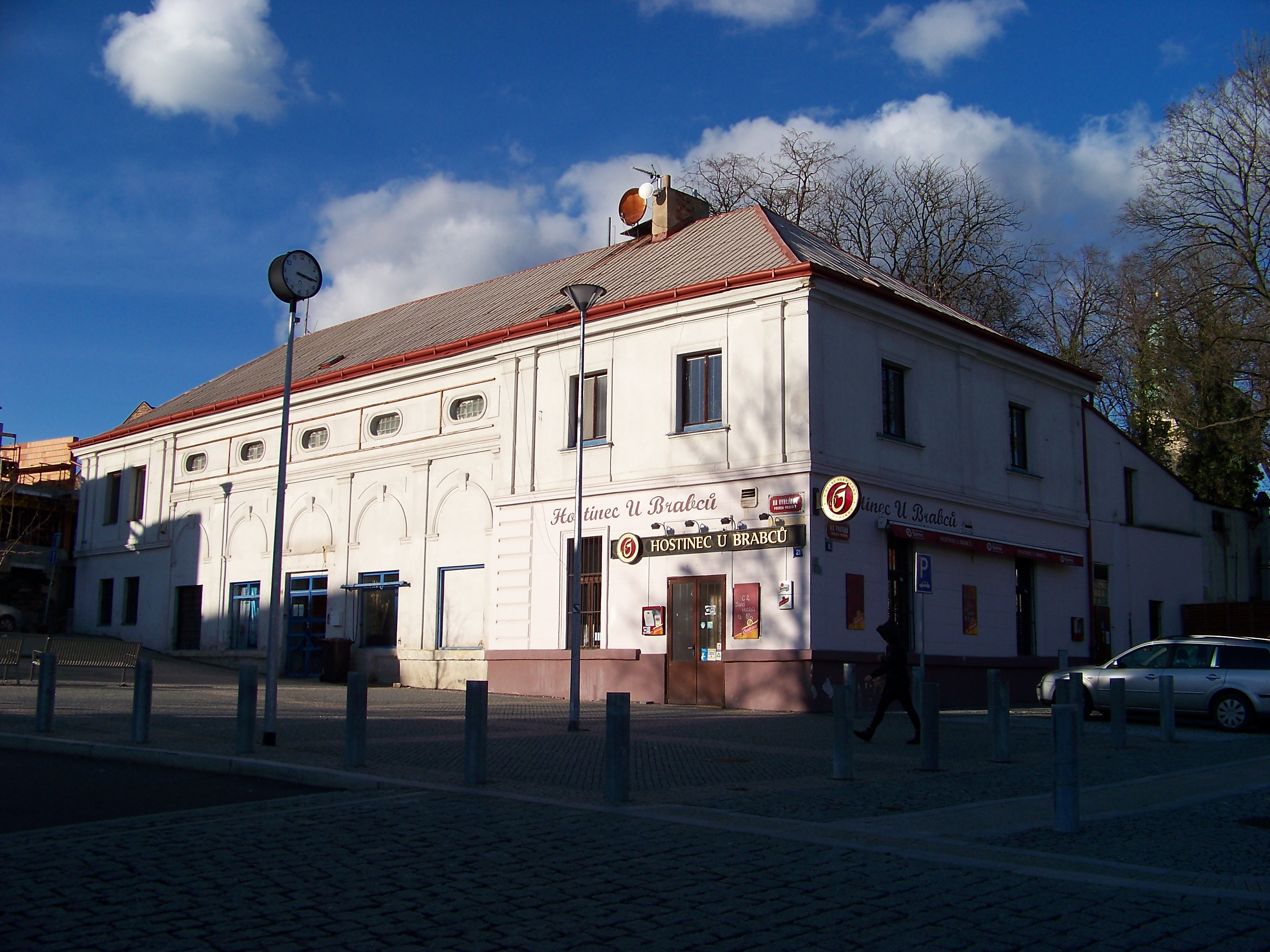 Prague-Prosek, the Czech Republic. U Brabců restaurant, Na vyhlídce 2/21, Na Proseku 2/11. - OpenStreetMap(Info)